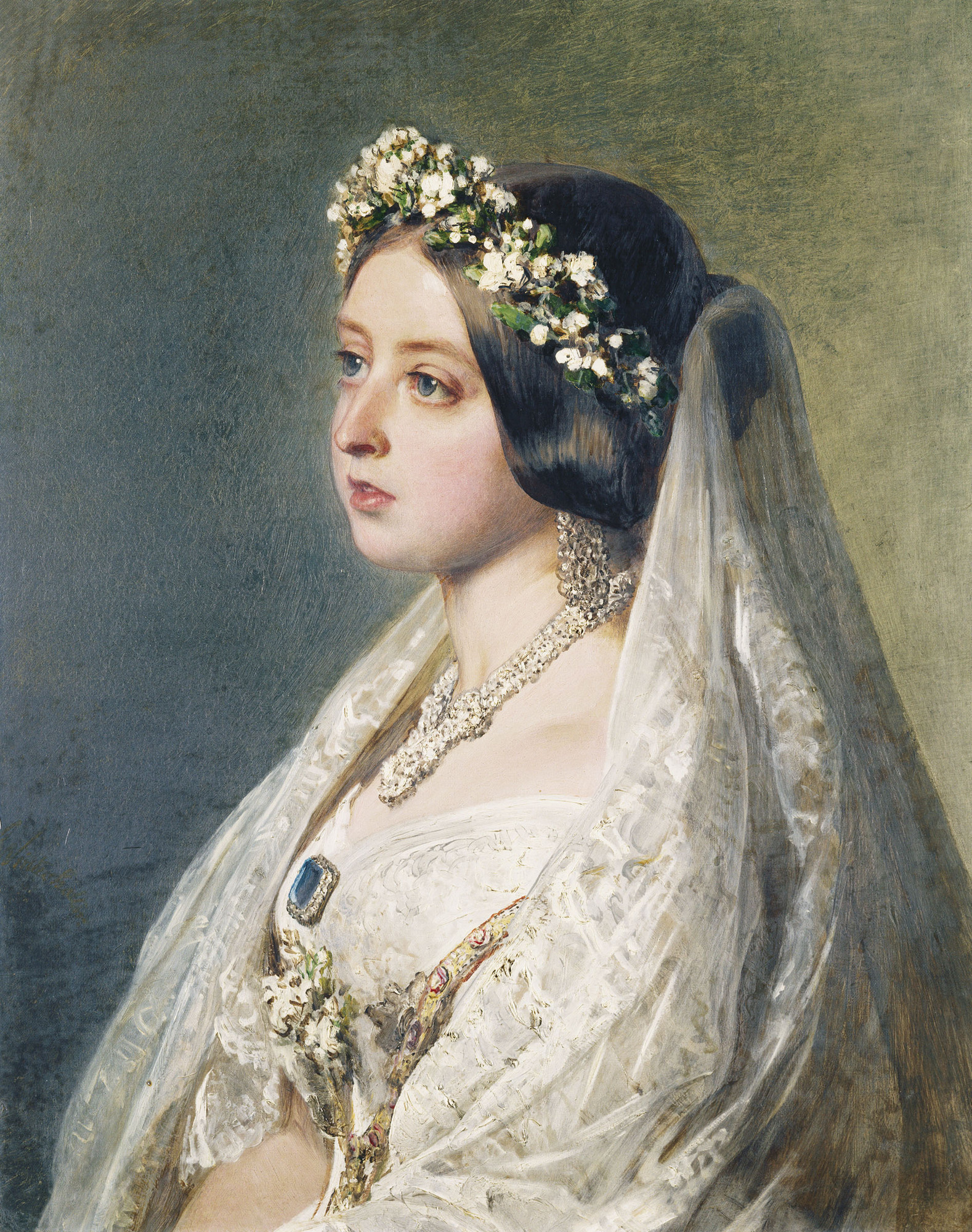 Queen Victoria (1819-1901)